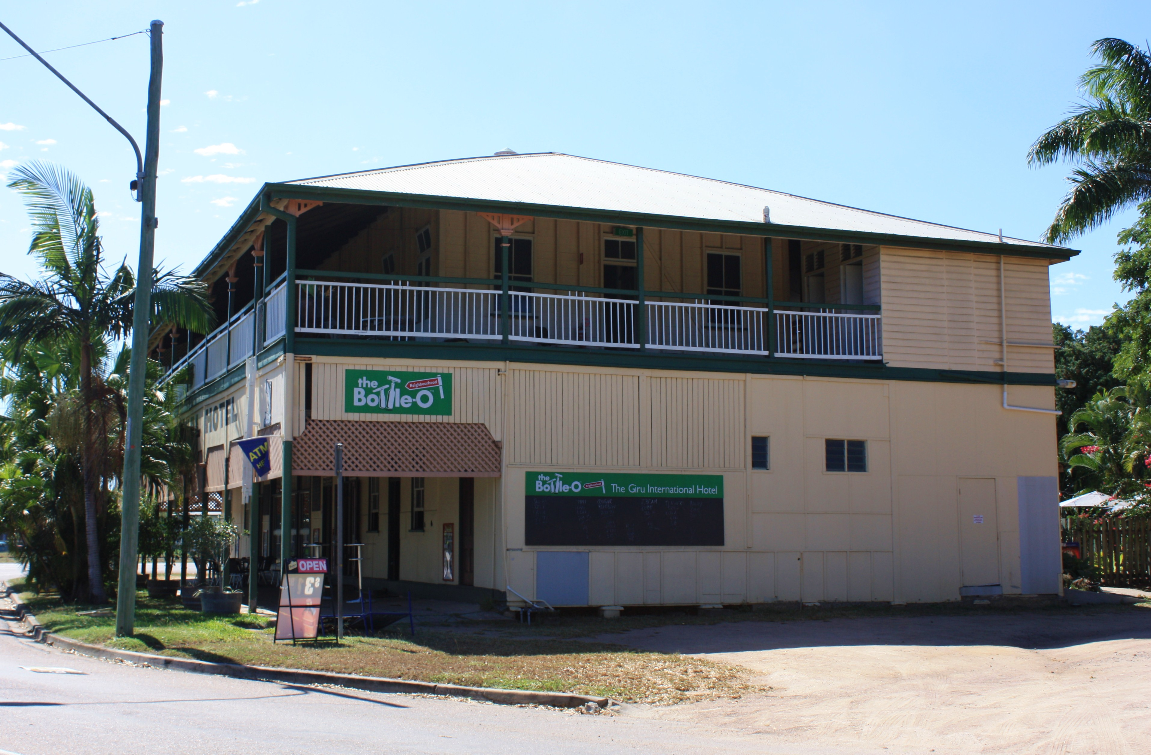 Built in 1920, the Giru International Hotel was originally one of three hotels in the small township that is home to workers at the Giru Mill. A large two-storey timber pub, these days it is a favourite stopover point for fishermen heading for the Haughton River or out into Cleveland Bay to chase barramundi, mud crabs and some of the best fishing in North Queensland. The pub has a strong fishing theme, and there are always a few locals around to tell stories about how big the barramundi really get! .au/pubs/qld/giru/giru-international-hotel